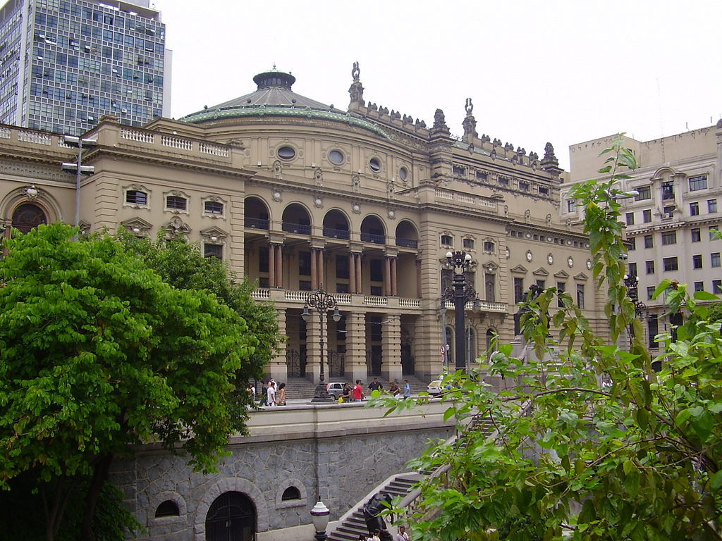 Lateral façade of the Theatro Municipal of Sao Paulo, Brazil